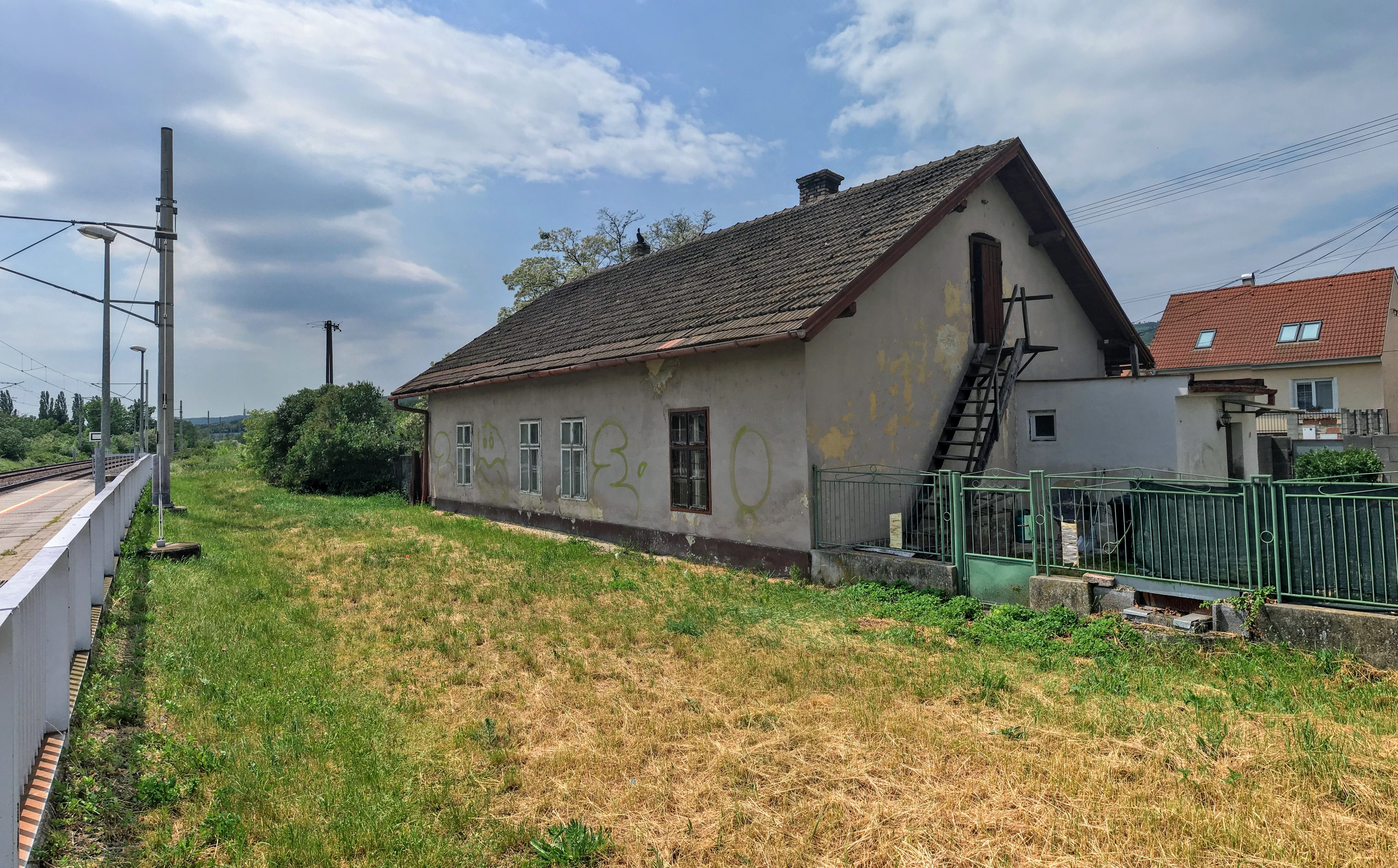 Former horsecar railway station building in Svätý Jur from 1840.